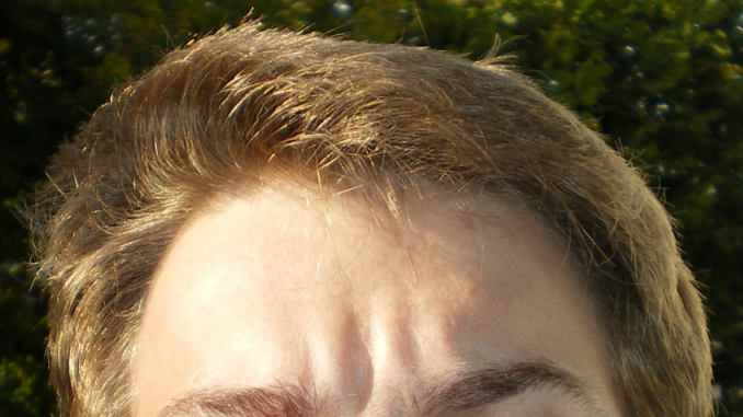 medium Hair Color